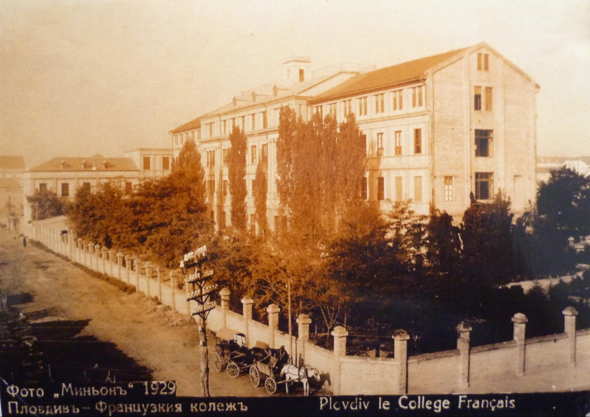 French College St. Augustine in Plovdiv